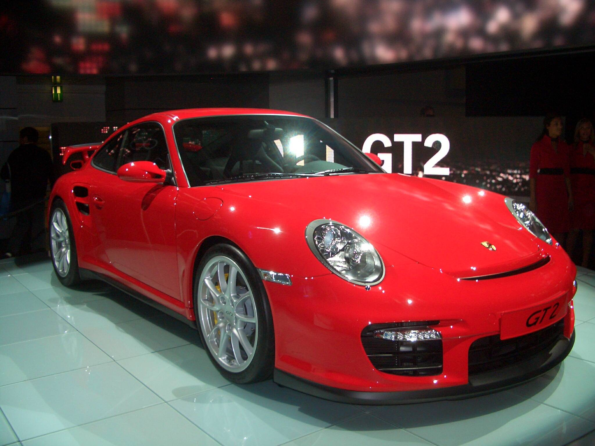 Porsche 911 GT2 (997) at the 2007 IAA.CIMG0827